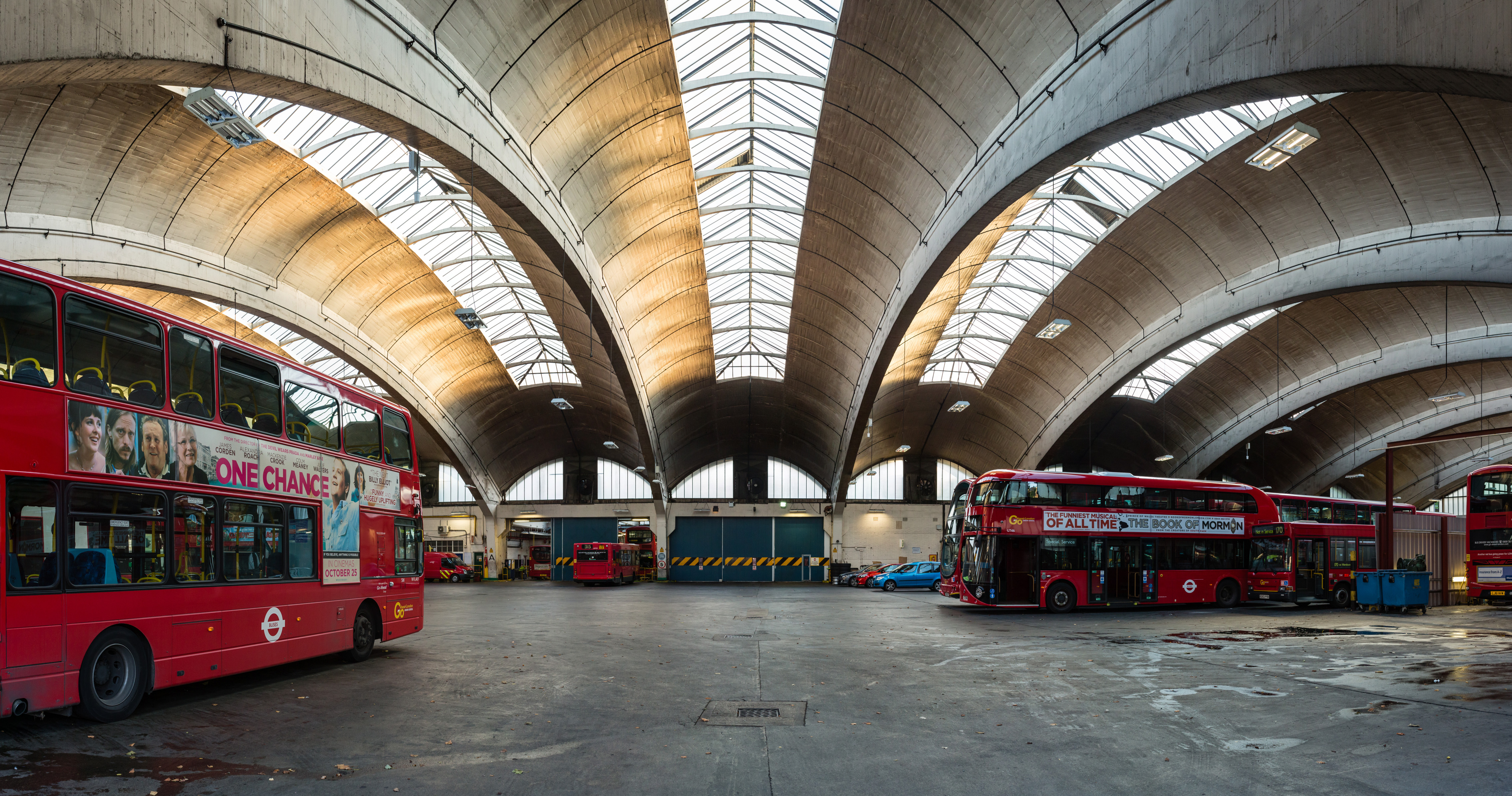 A panoramic view of Stockwell Bus Station in South London, UK.